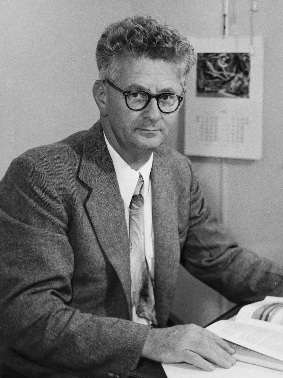 Norman Hargrave Taylor in 1955. Photographer unidentified.